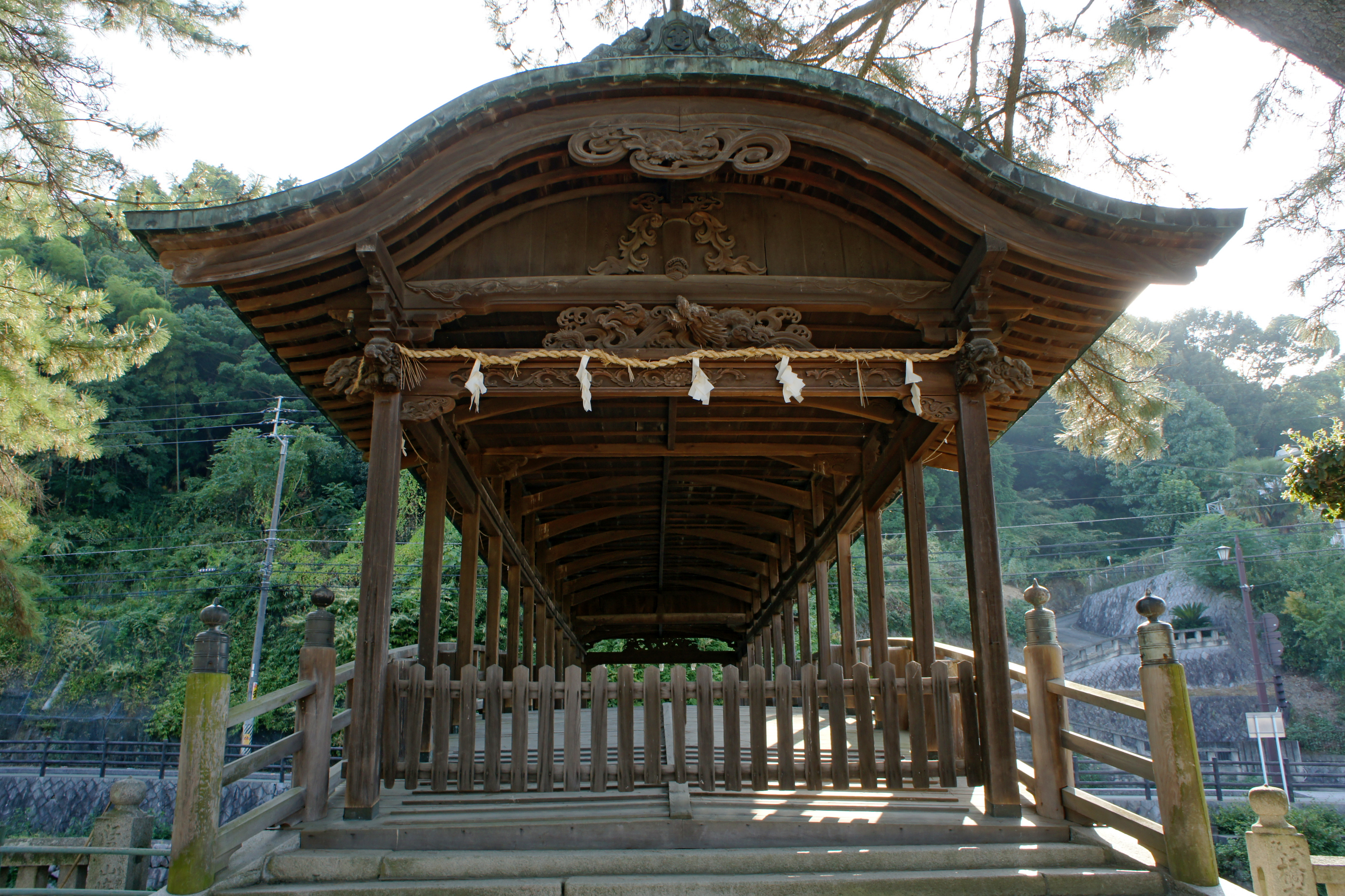 Saya-bridge in Kotohira, Kagawa prefecture, Japan.